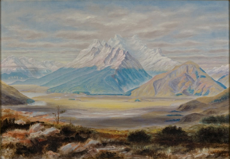 Painting of Mount Earnslaw (New Zealand), oil on canvas, 670 x 965 mm